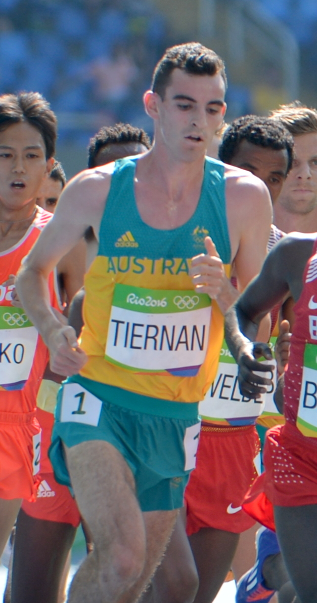 Patrick Tiernan in the second heat of men's 5,000-meter run, Wednesday, Aug. 17 at the Rio Olympic Games in Rio de Janeiro. U.S. Army photo by Tim Hipps, IMCOM Public Affairs #SoldierOlympians #ArmyOlympians #ArmyTeam #GoArmy #TeamUSA #RoadToRio #Olympics #ArmyStrong